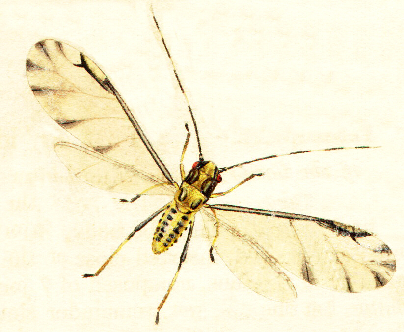 Detail of Plate 577 showing close-up of Eucallipterus_tiliae